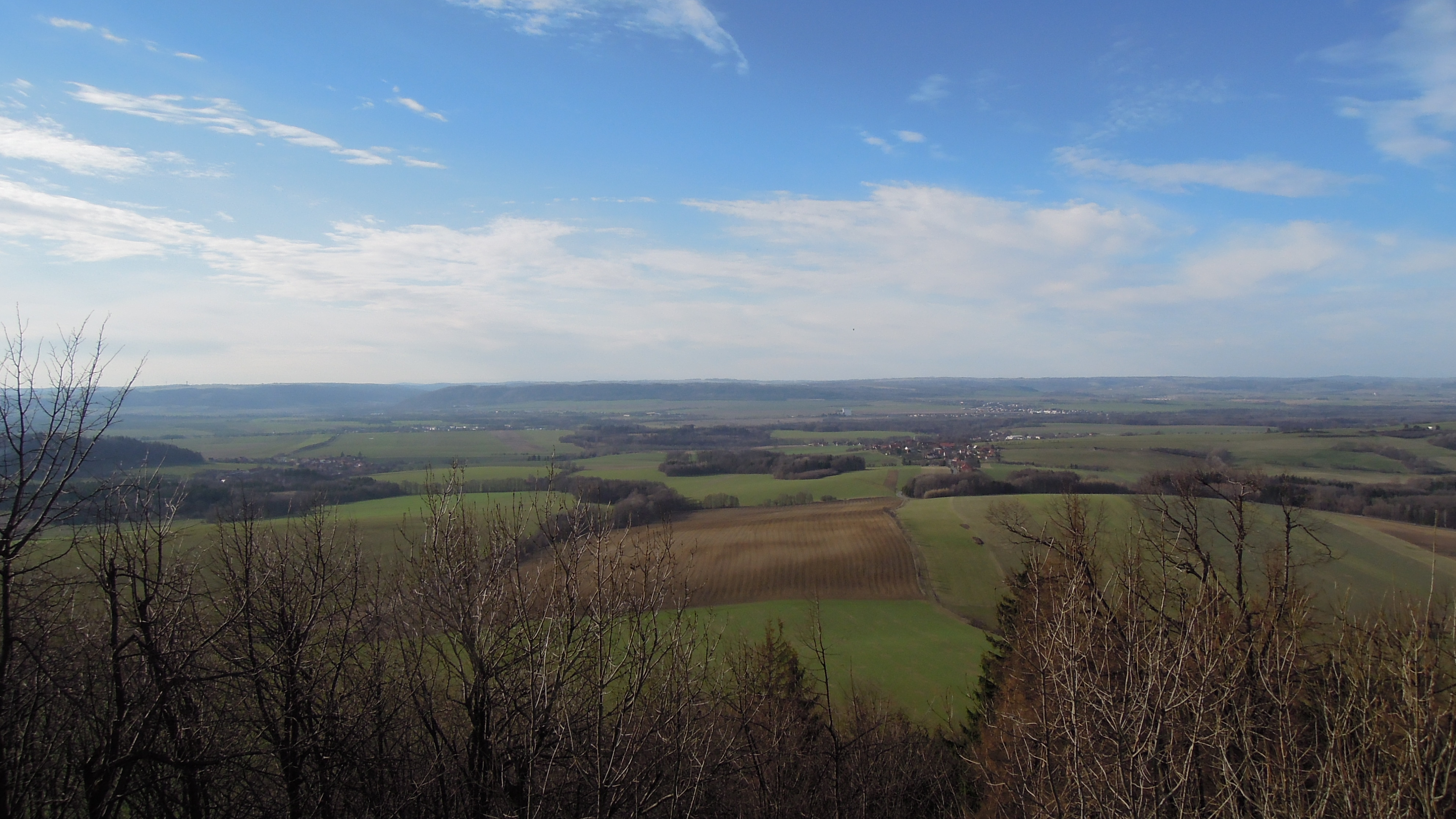 View of Bernartice nad Odrou and Hůrka from Starý Jičín Castle near Nový Jičín, Moravian-Silesian Region, Czech Republic